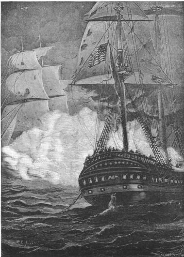 USS President and HMS Endymion at battle.